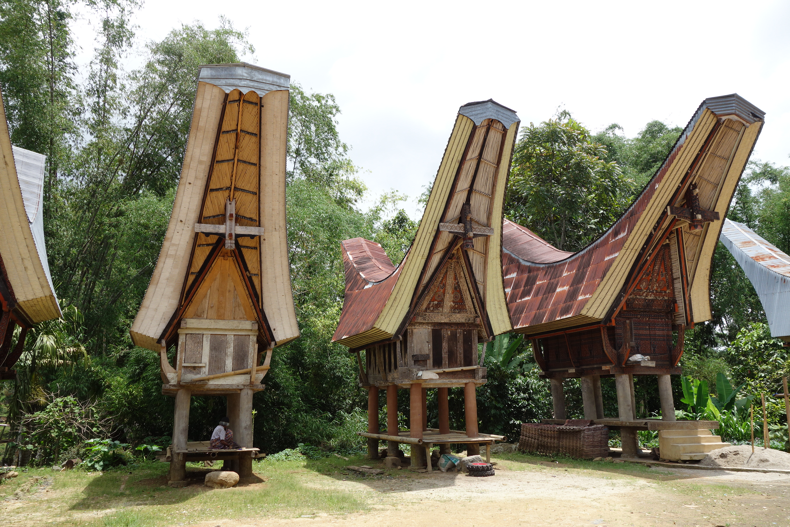 Traditional style rice barns of Toraja people, Sulawesi. March 2014.